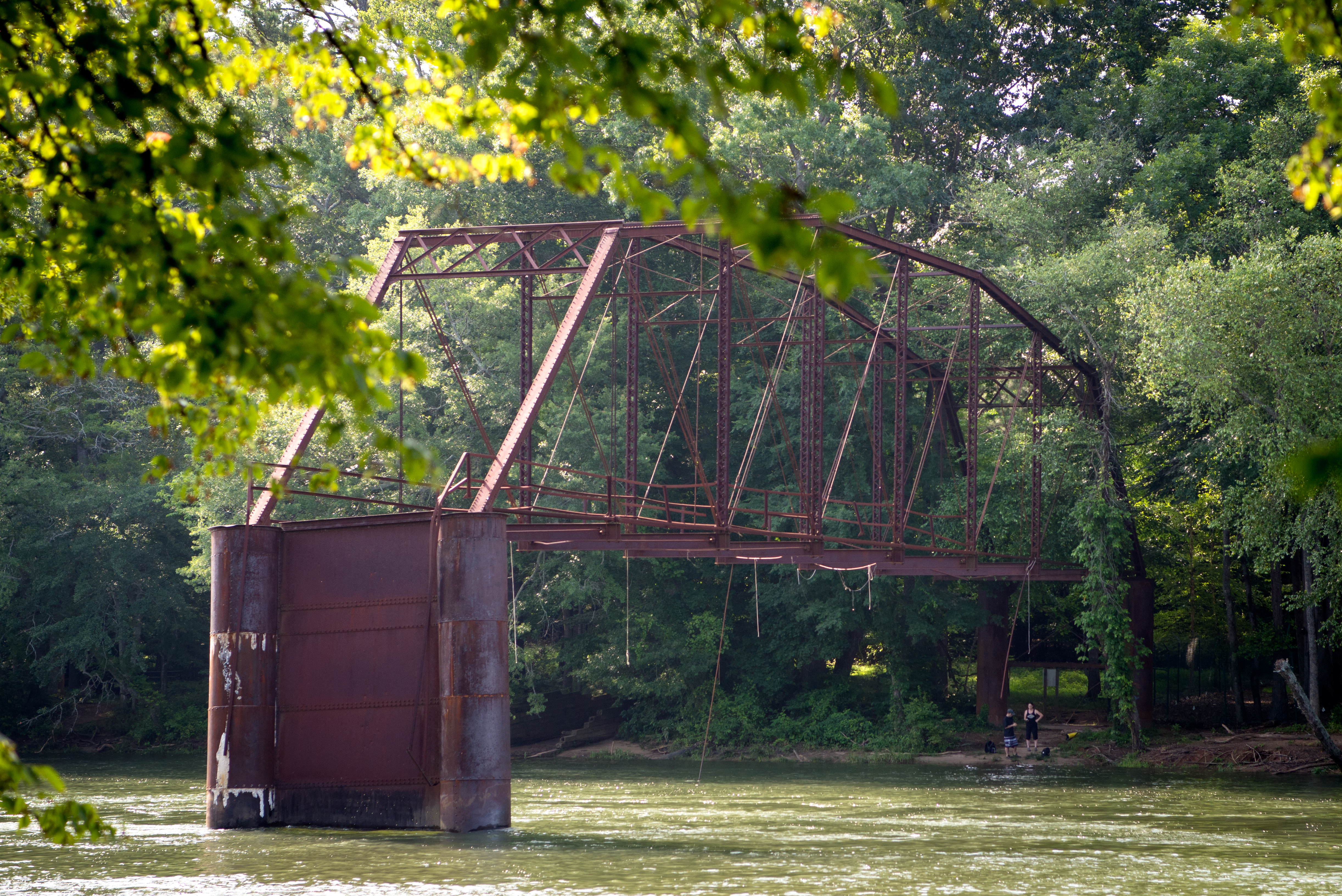 The now-defunct Jones Bridge (1904) once connected Pinckneyville to Alpharetta.